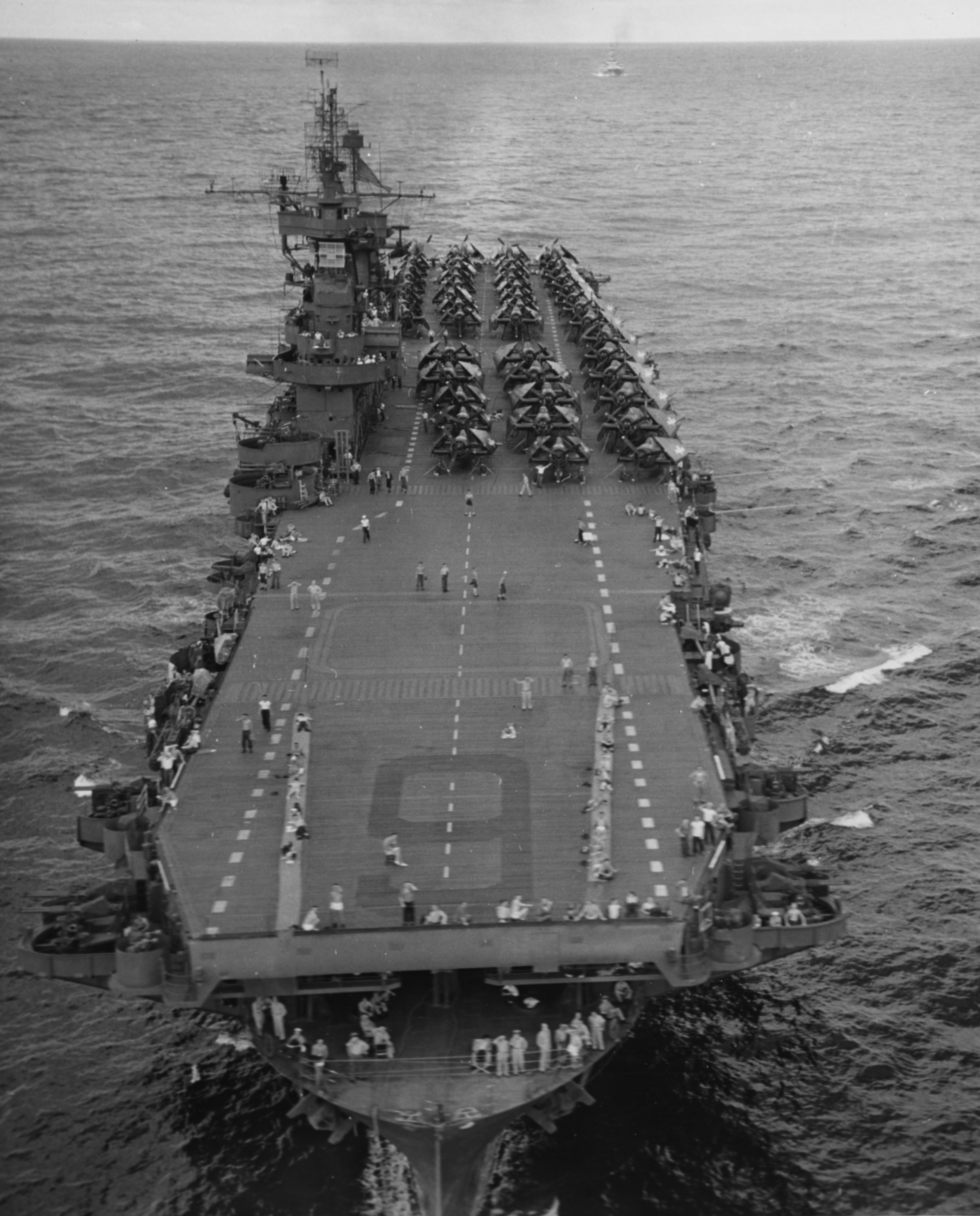 The U.S. Navy aircraft carrier USS Enterprise (CV-6) steams toward the Panama Canal on 10 October 1945, while en route to New York (USA) to participate in Navy Day celebrations.